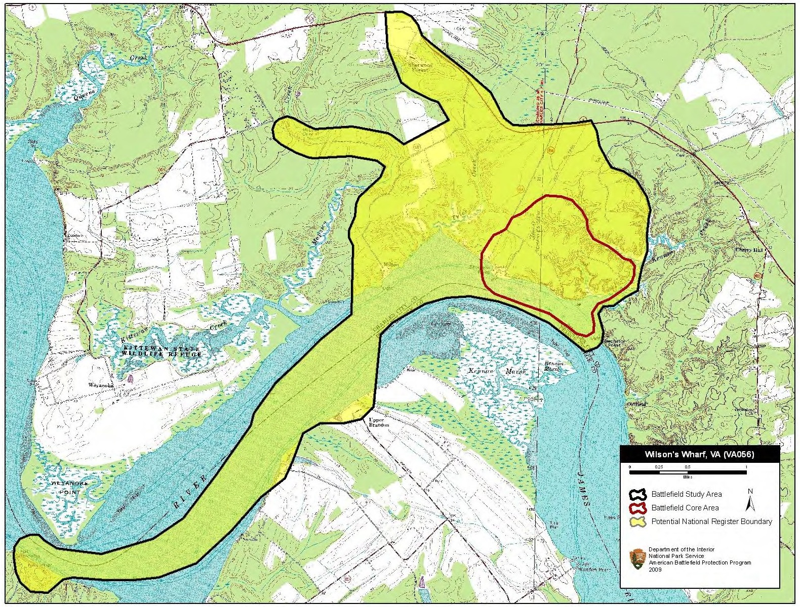 Map of battlefield core and study areas. The revised Study Area includes the approach route of the USS Dawn.